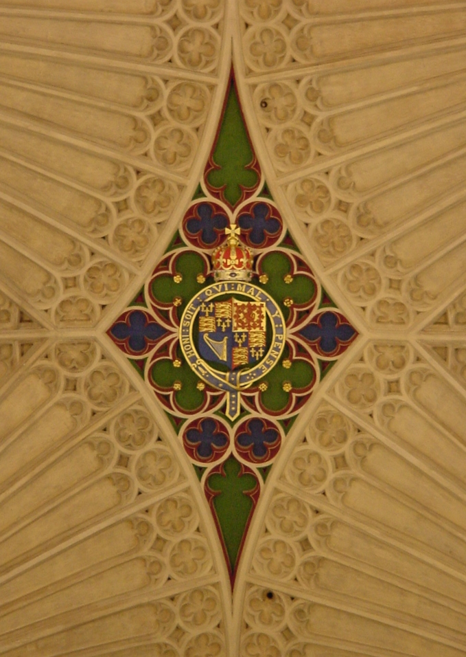 17th century royal coat of arms on the ceiling of Bath Abbey. Inscribed with the motto "Honi soit qvi mal y pense".